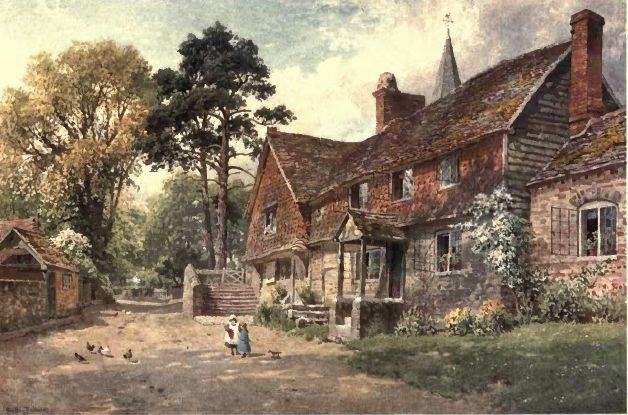 Harry Sutton Palmer - "Wikipedia:Witley" (1906)